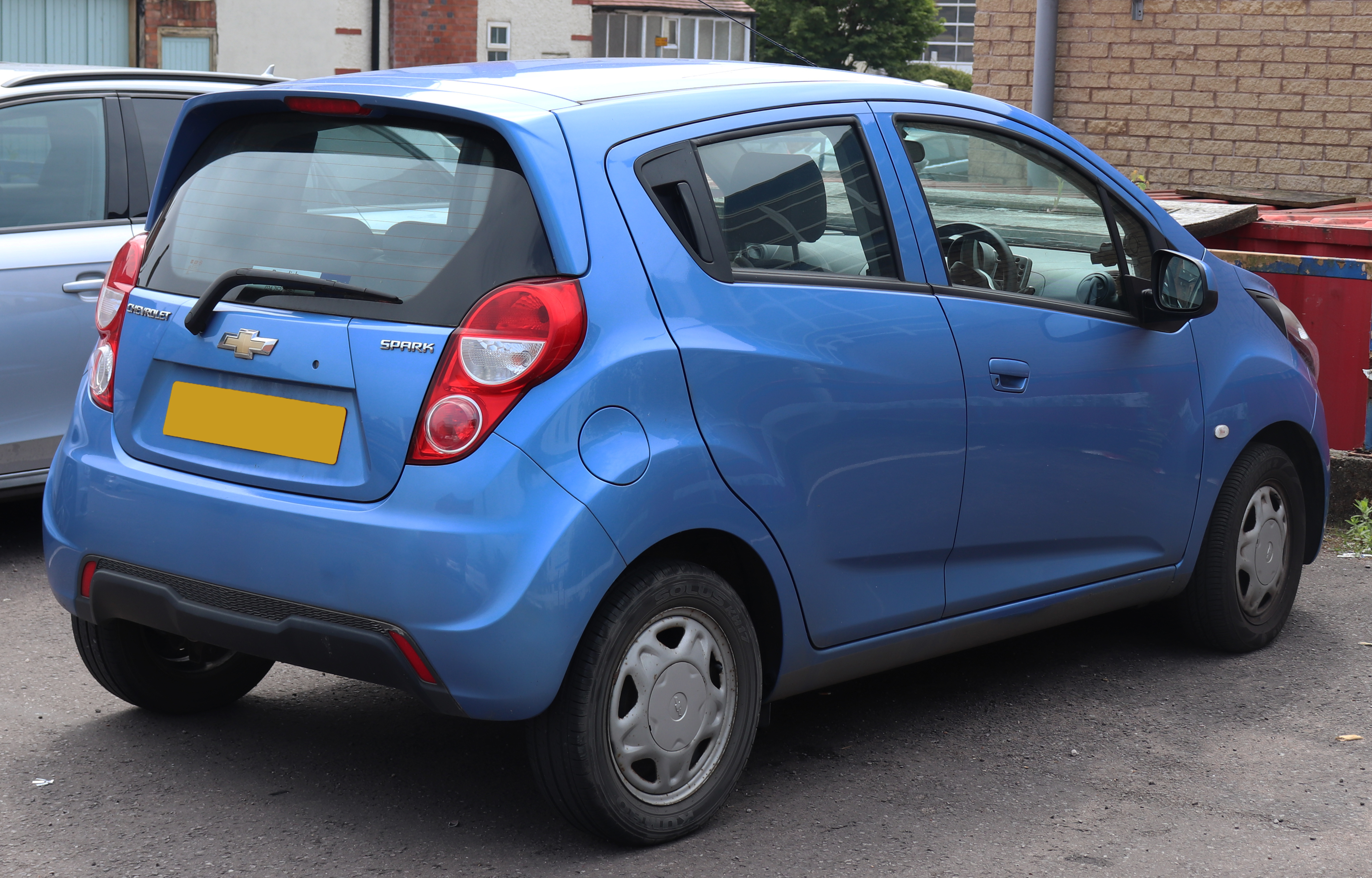 2013 Chevrolet Spark LT 1.2 Taken in Leamington Spa